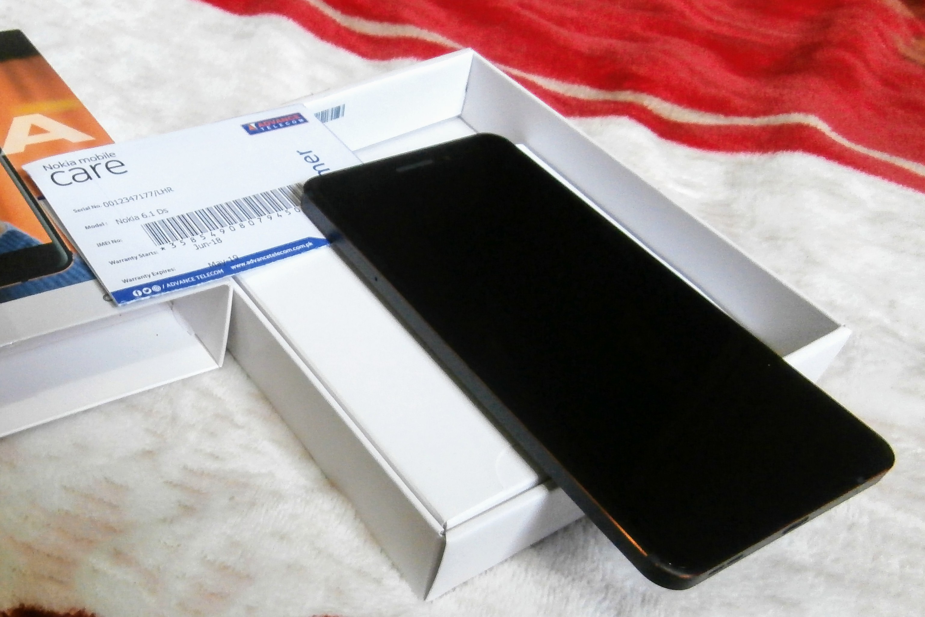 Newly-released Nokia 6.1 smartphone in Pakistan. Android Oreo.